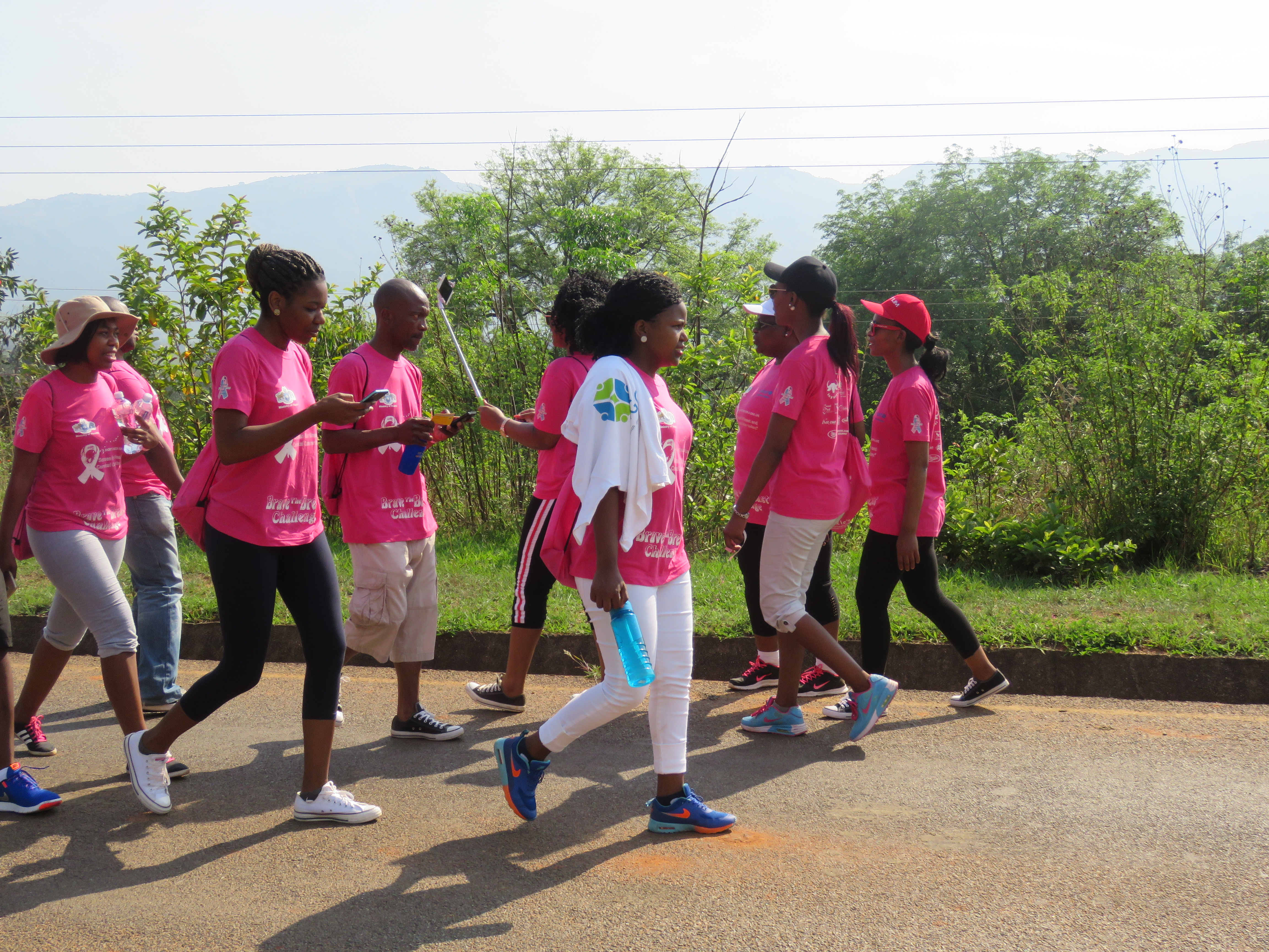 Brave the Breast Annual Walk in Swaziland. This is an image of "African people at work" from Eswatini